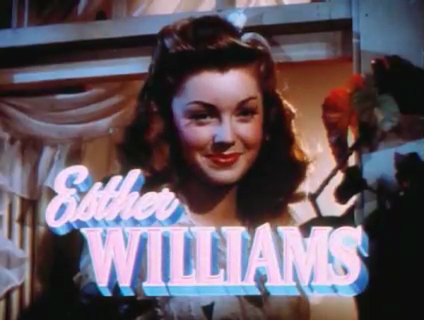 Esther Williams in Thrill of a Romance, by Richard Thorpe (1945)